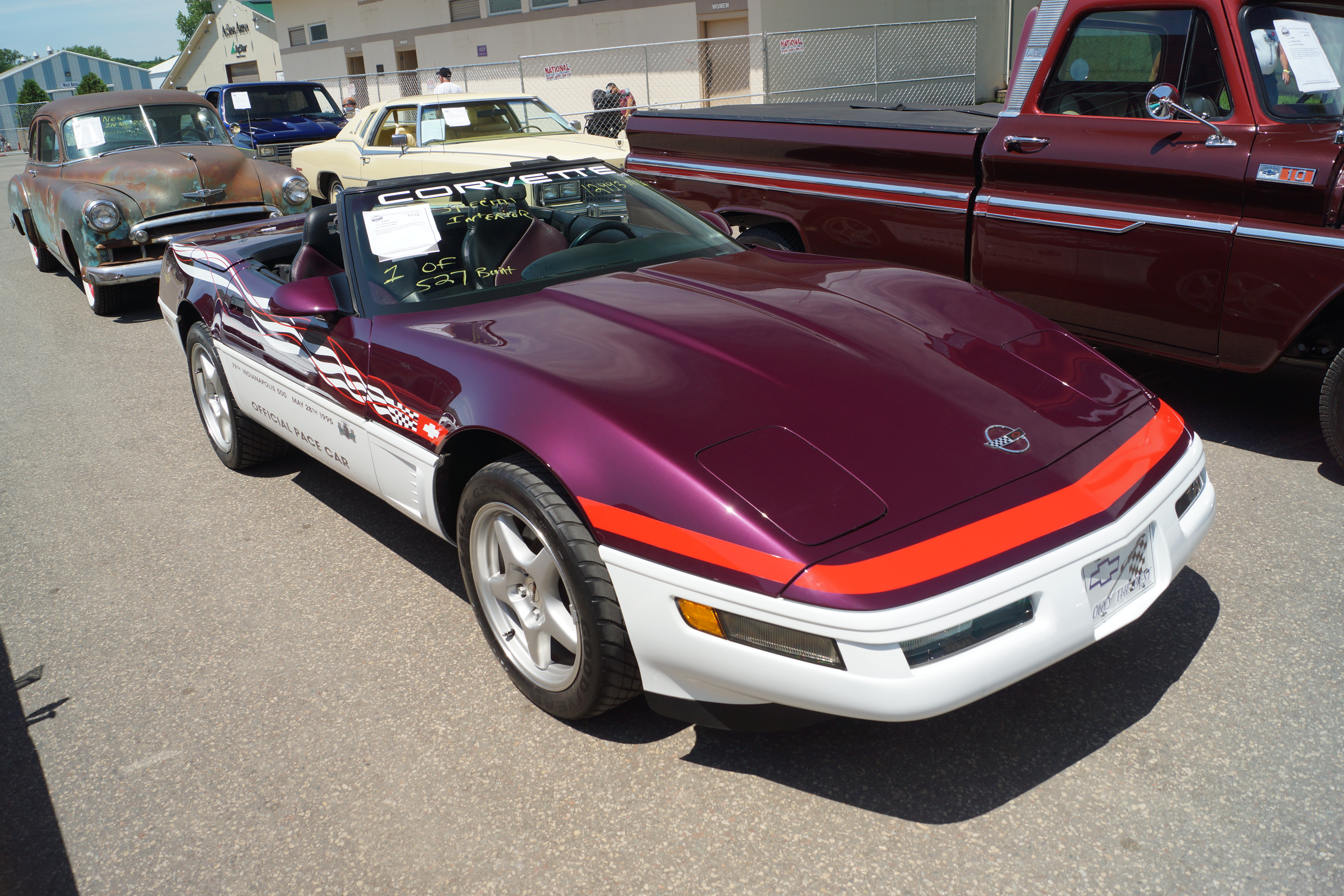 Minnesota Street Rod Association (MSRA) “BACK TO THE 50′s” 43nd Annual Car Show June 17-19, 2016 State Fairgrounds St. Paul, Minnesota Click here for more car pictures at my Flickr site.